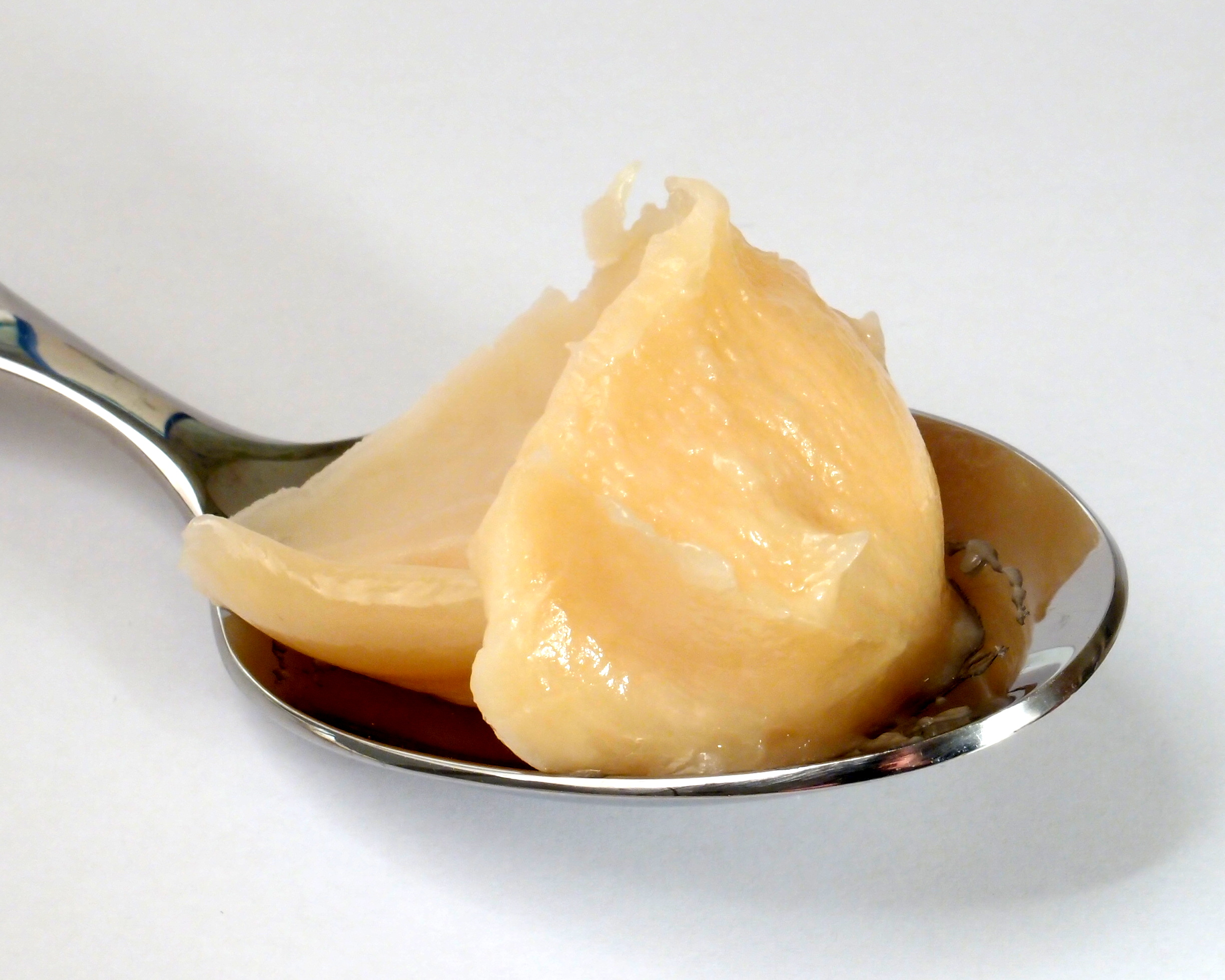 A spoonful of invert sugar cream, a honey substitute made from invert saccharose.